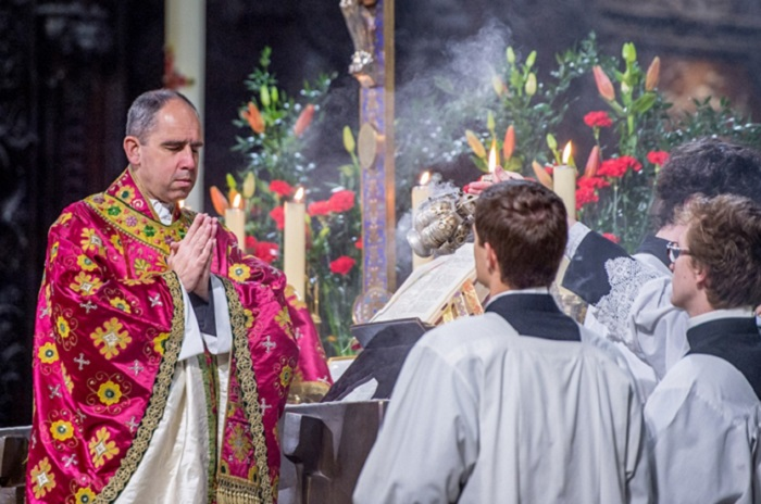 MGR MATHIEU ROUGE AU PELERINAGE DE CHARTRES